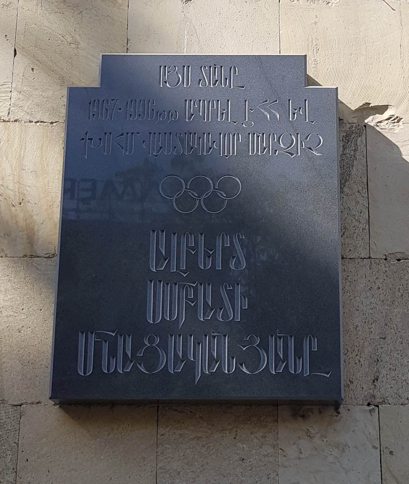 Albert Mnatsakanyan's plaque on Abovyan street of Yerevan